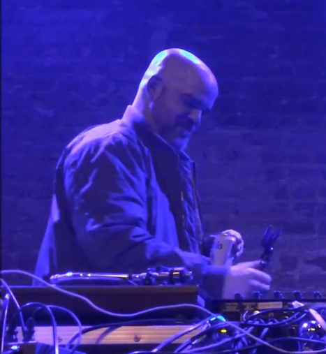 Knxwledge live at The Hi Hat, LA